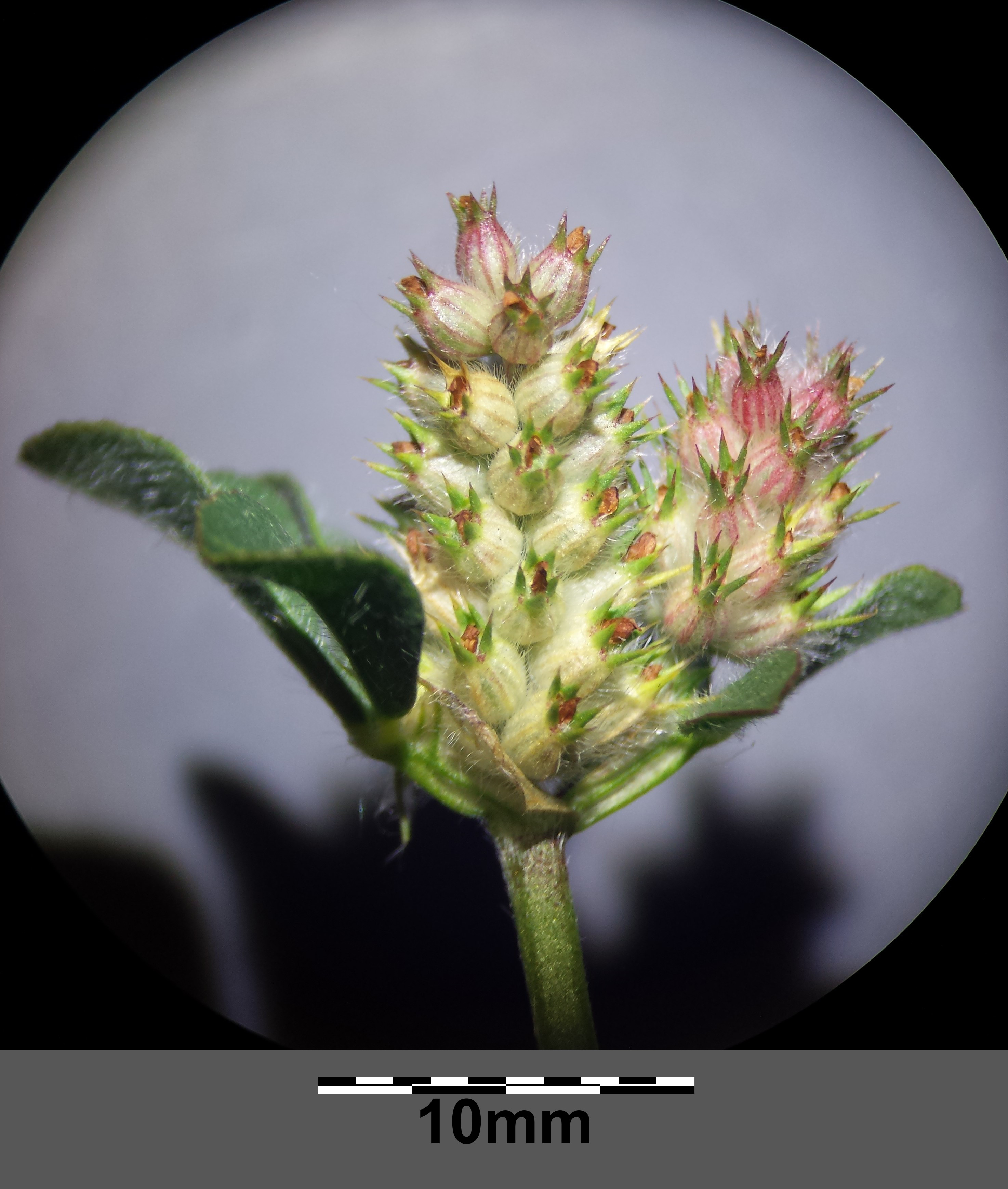 Inflorescence with capitula Taxonym: Trifolium striatum ss Fischer et al. EfÖLS 2008 ISBN 978-3-85474-187-9 Location: Korneuburg rail station, district Korneuburg, Lower Austria - ca. 170 m a.s.l. Habitat: ruderal meadows